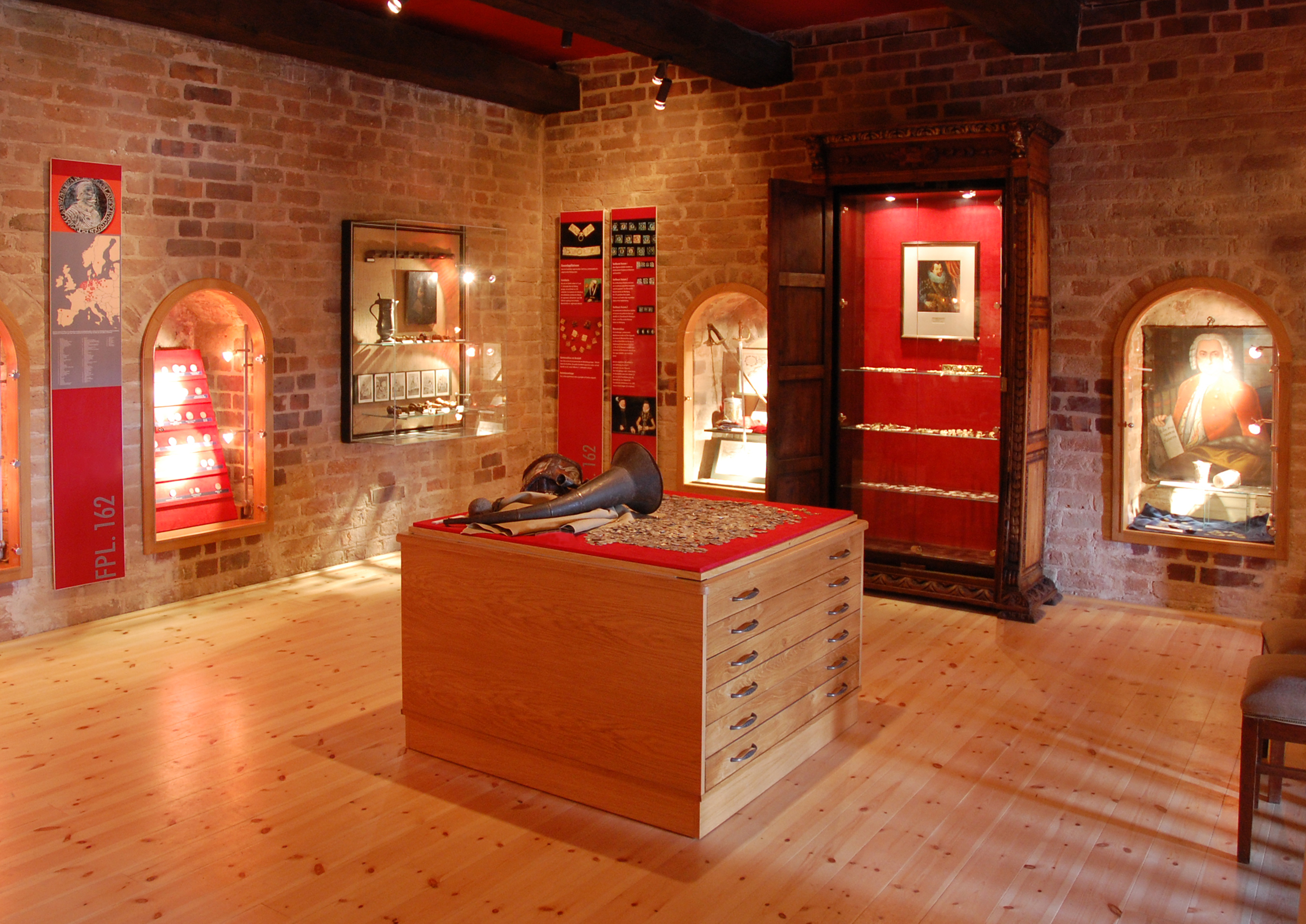 exhibition Museum im Steintor Anklam Germany